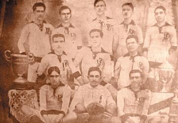 Team Champion Paulista in 1914